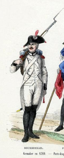 'New' style uniform of the Boubonnais Regiment.